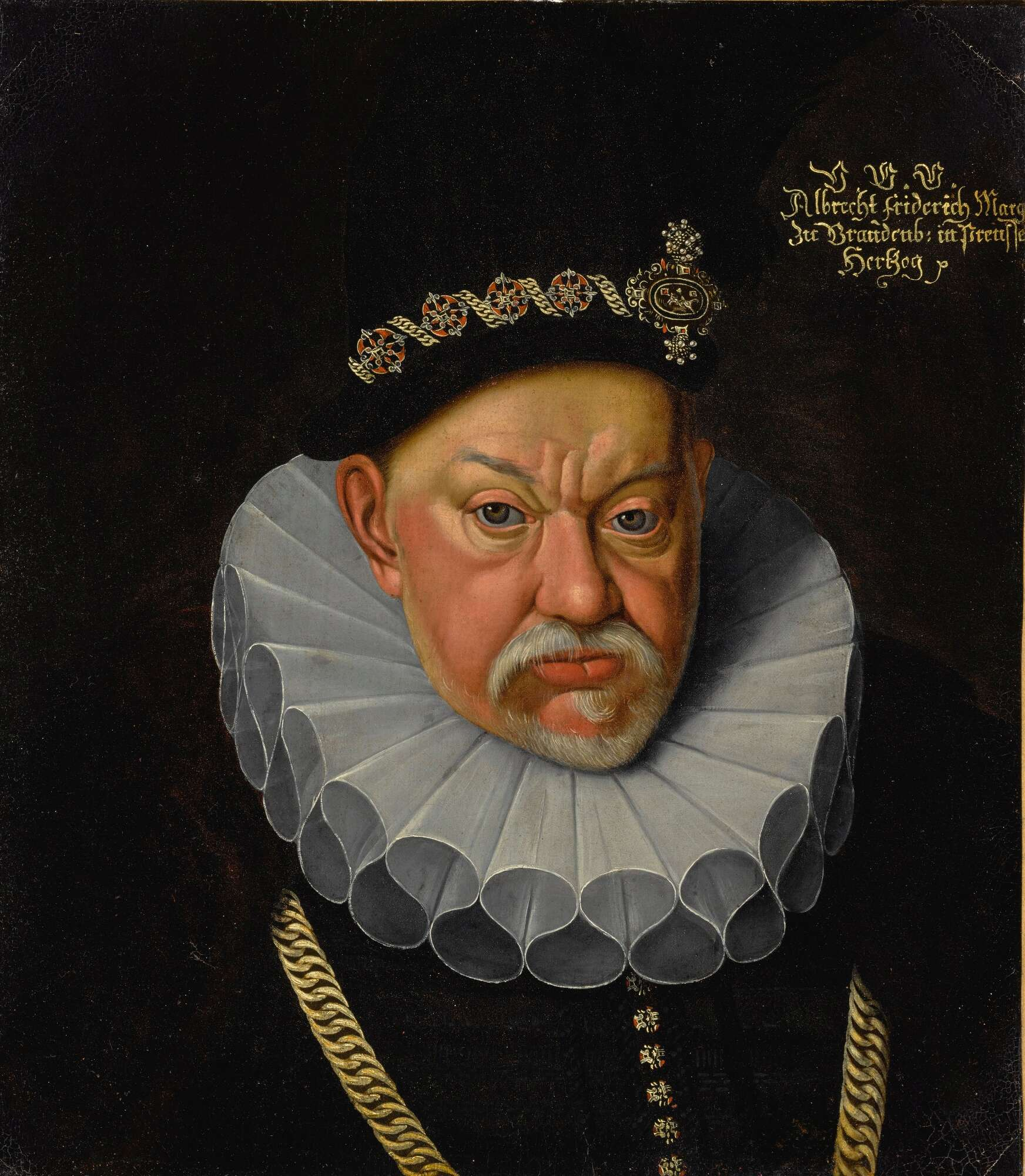 Portrait of Albert Frederick, Duke of Prussia